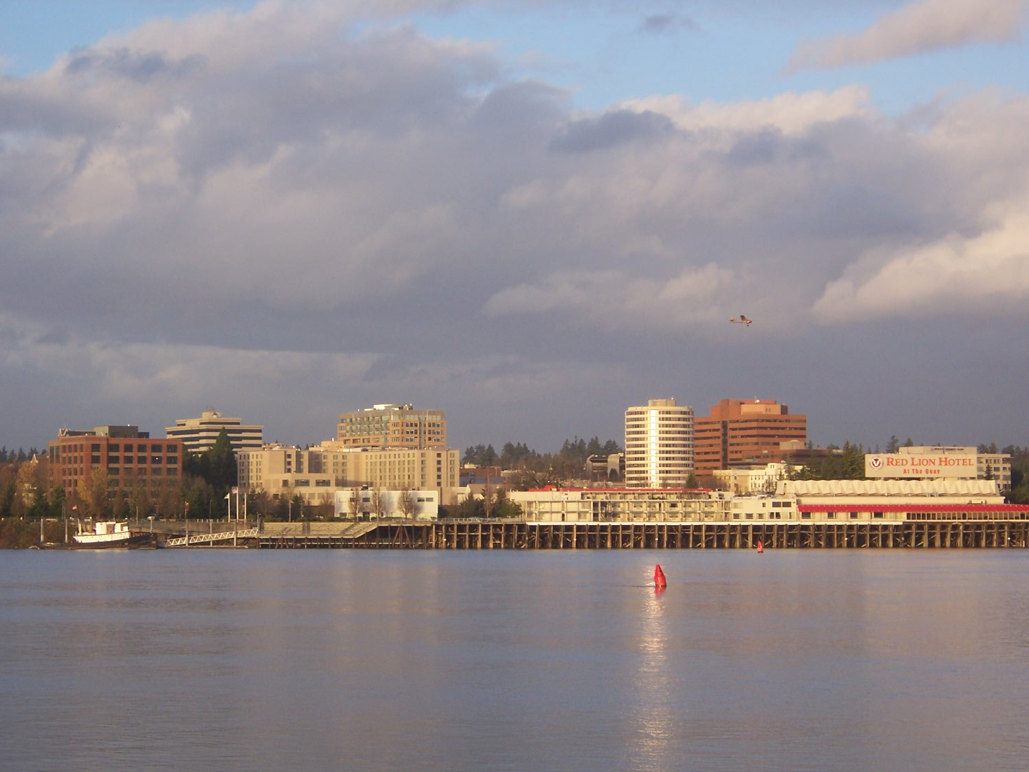 View of downtown Vancouver, Washington during horizontal period from Hayden Island.